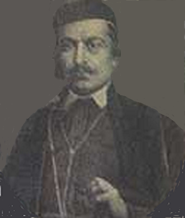 Auguste Adib Paixà